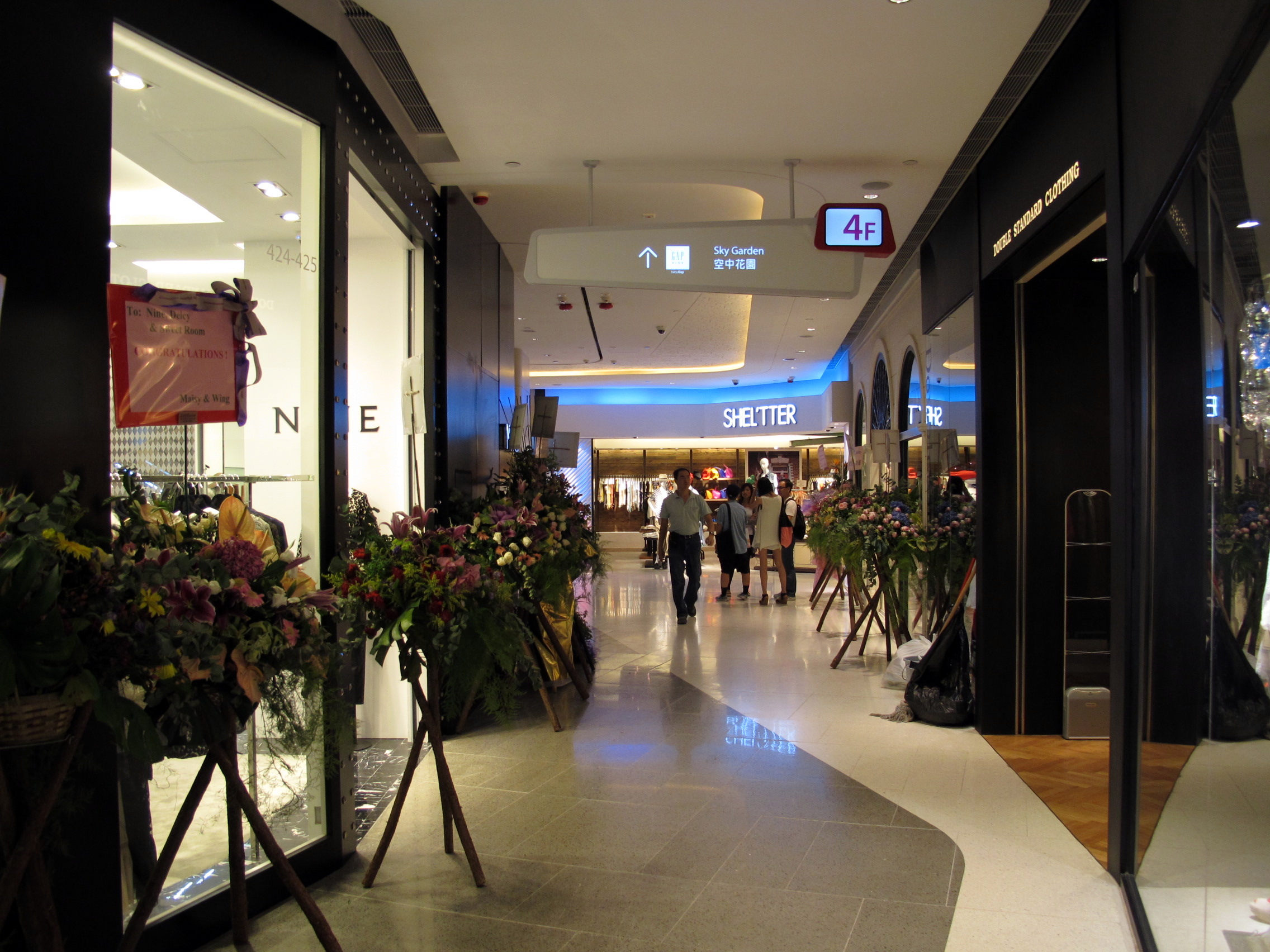 Hysan Place Level 4 Store